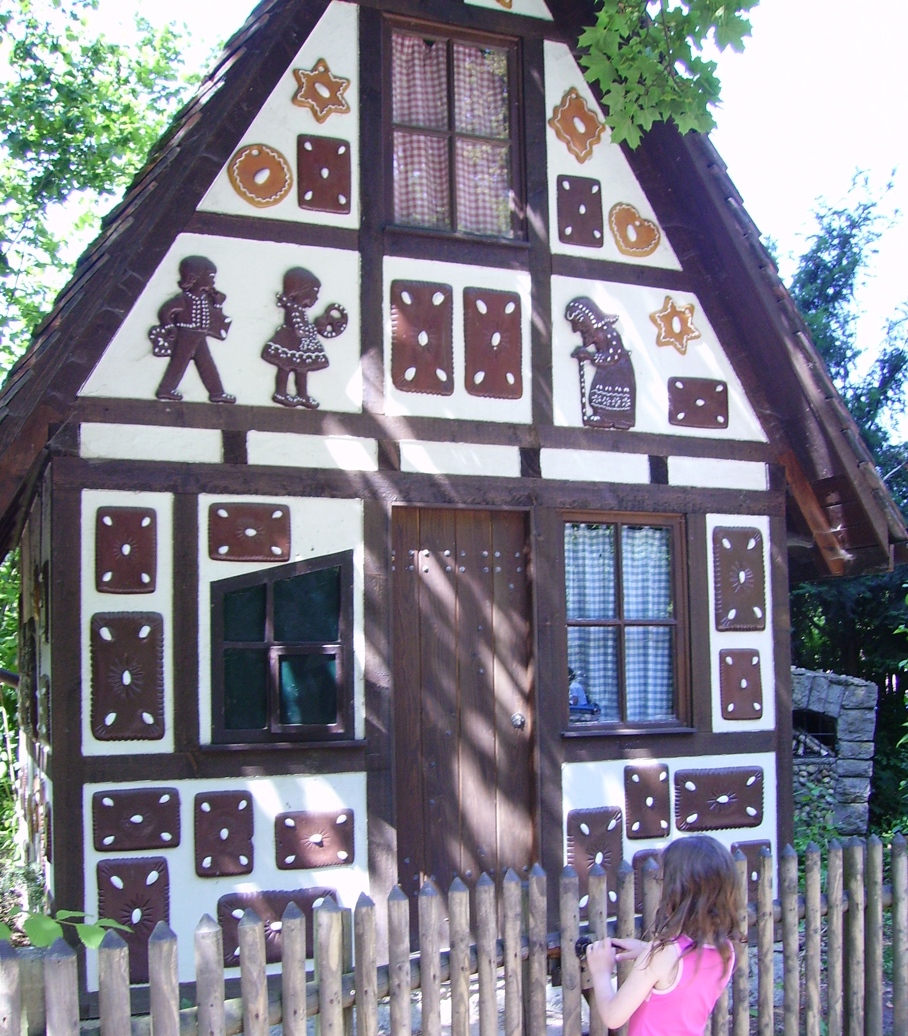 Märchengarten (fairy tale garden), in the Garden at Schloss Ludwigsburg — in Ludwigsburg, Germany.